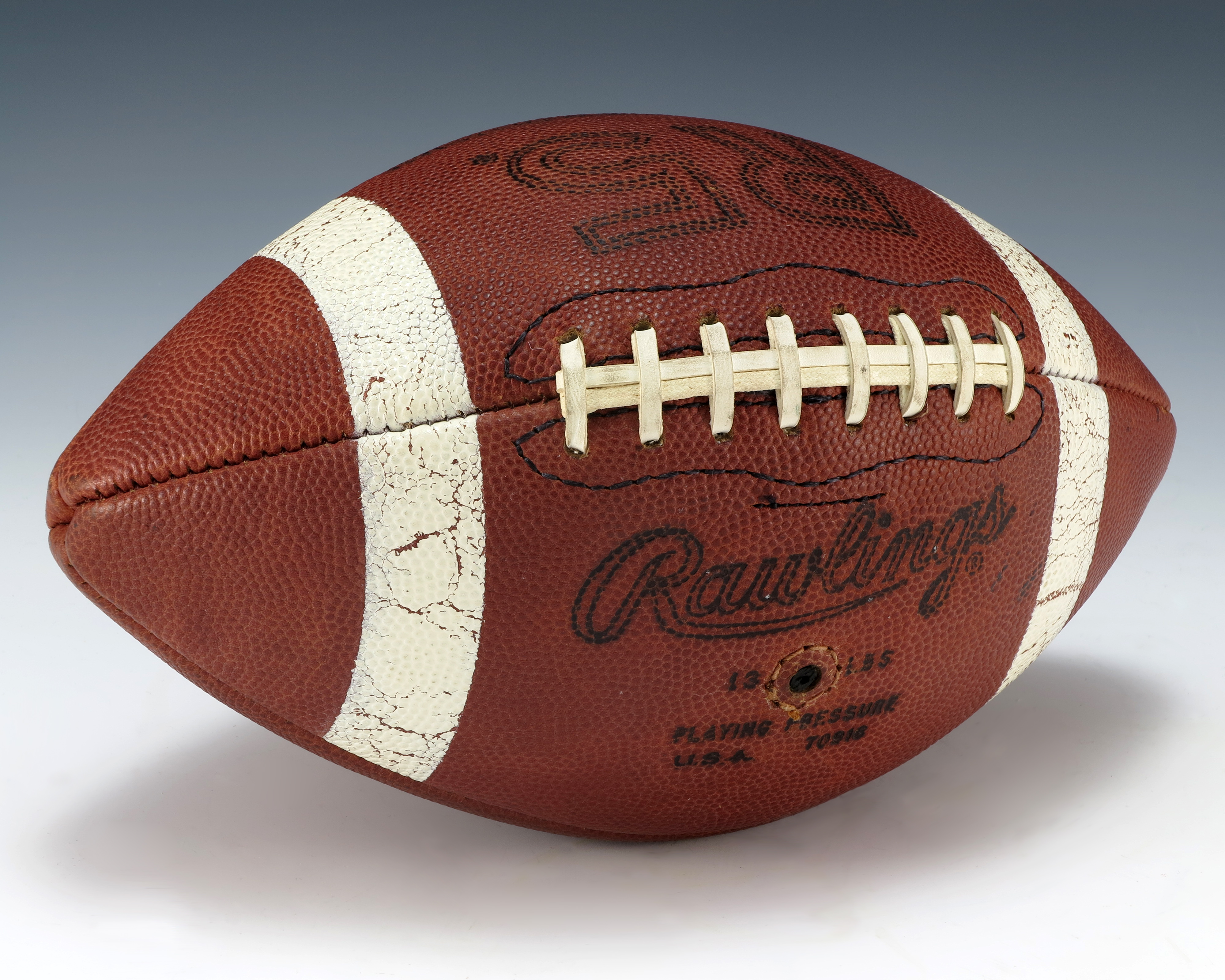 A football from the 1978 Rose Bowl, where the Washington Huskies (led by Warren Moon) thwarted a furious second half comeback of the Michigan Wolverines (led by Rick Leach). The Huskies defeated the Wolverines 27-20. Stamped on the ball is text that reads, "1978 Rose Bowl / Washington / vs. / Michigan". President Ford served as the Grand Marshal of the Tournament of Roses parade.